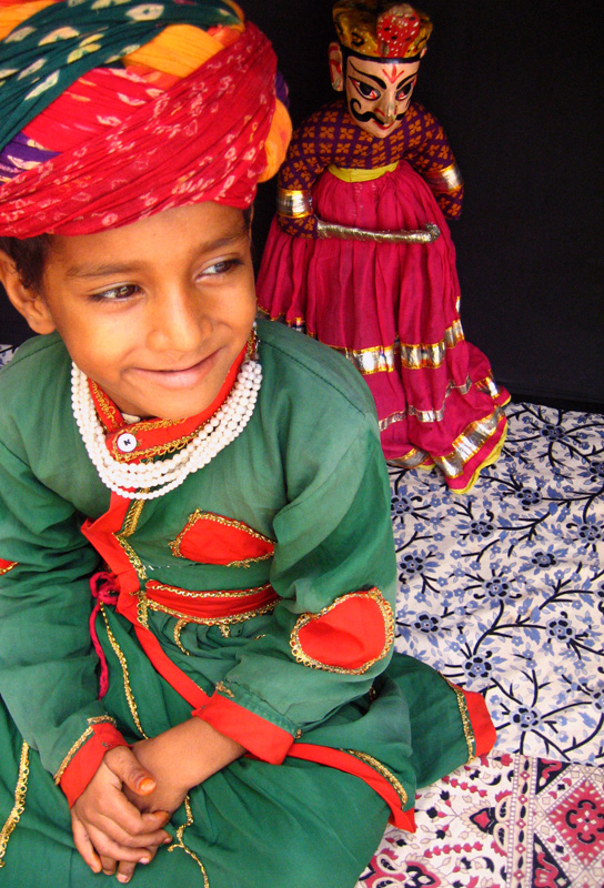 Rajasthani puppeteerWho's Pulling Whose Strings?